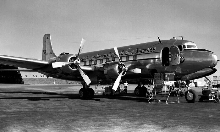 British Commonwealth Pacific Airlines aircraft VH-BPH Discovery, one of four Douglas DC-6 airliners operated by BCPA, at Brisbane Airport. In May 1954, this aircraft, along with its two remaining sisters, was transferred to the New Zealand-based airline TEAL, and reregistered in New Zealand.